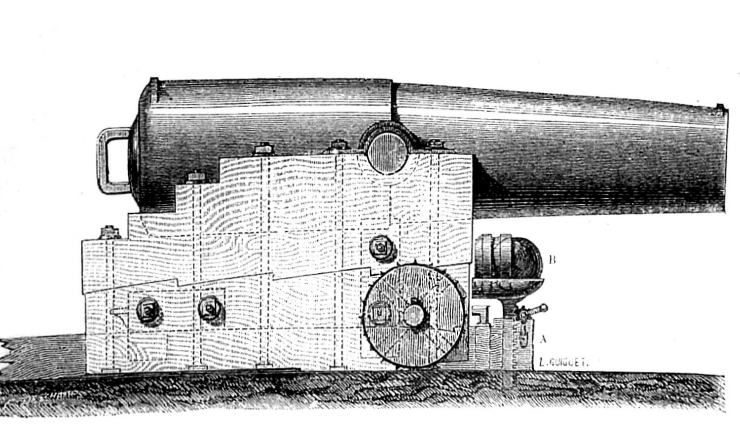 Paixhans Canon image. Circa 1860 engraving.